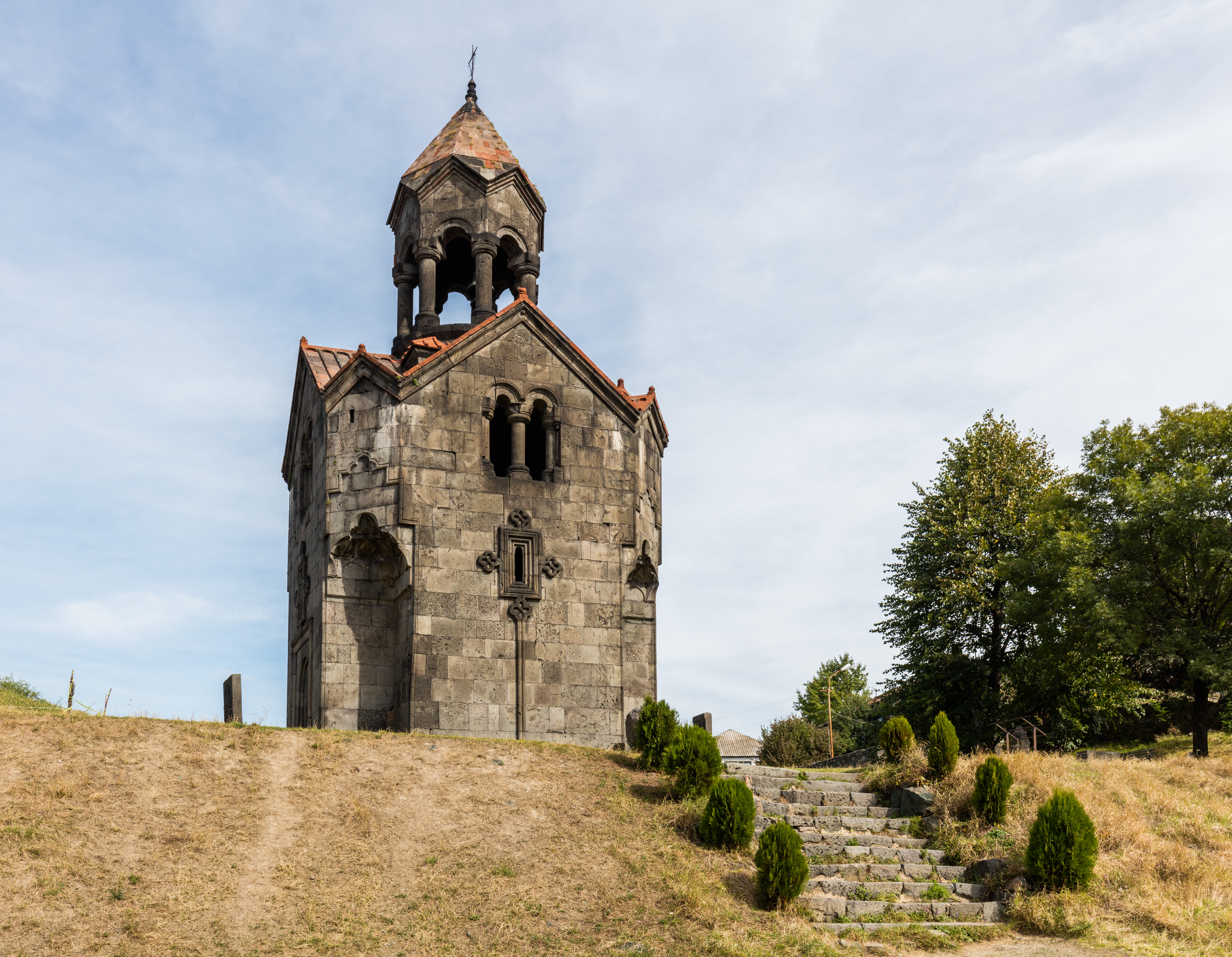 Haghpat Monastery, Armenia